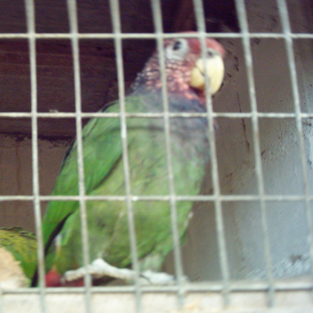 Speckle-faced Parrot at La Merced Zoo.